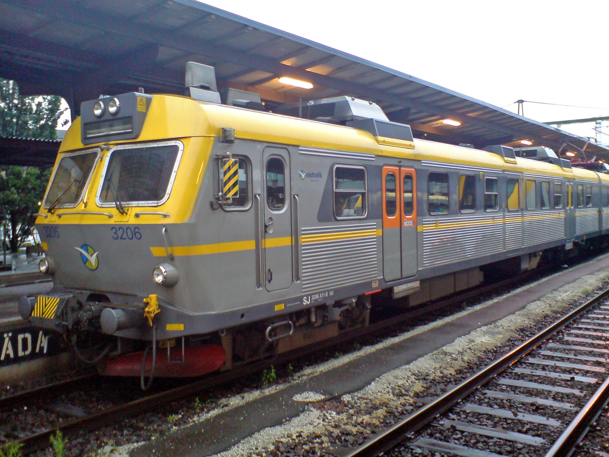 Commuter train in Gothenburg